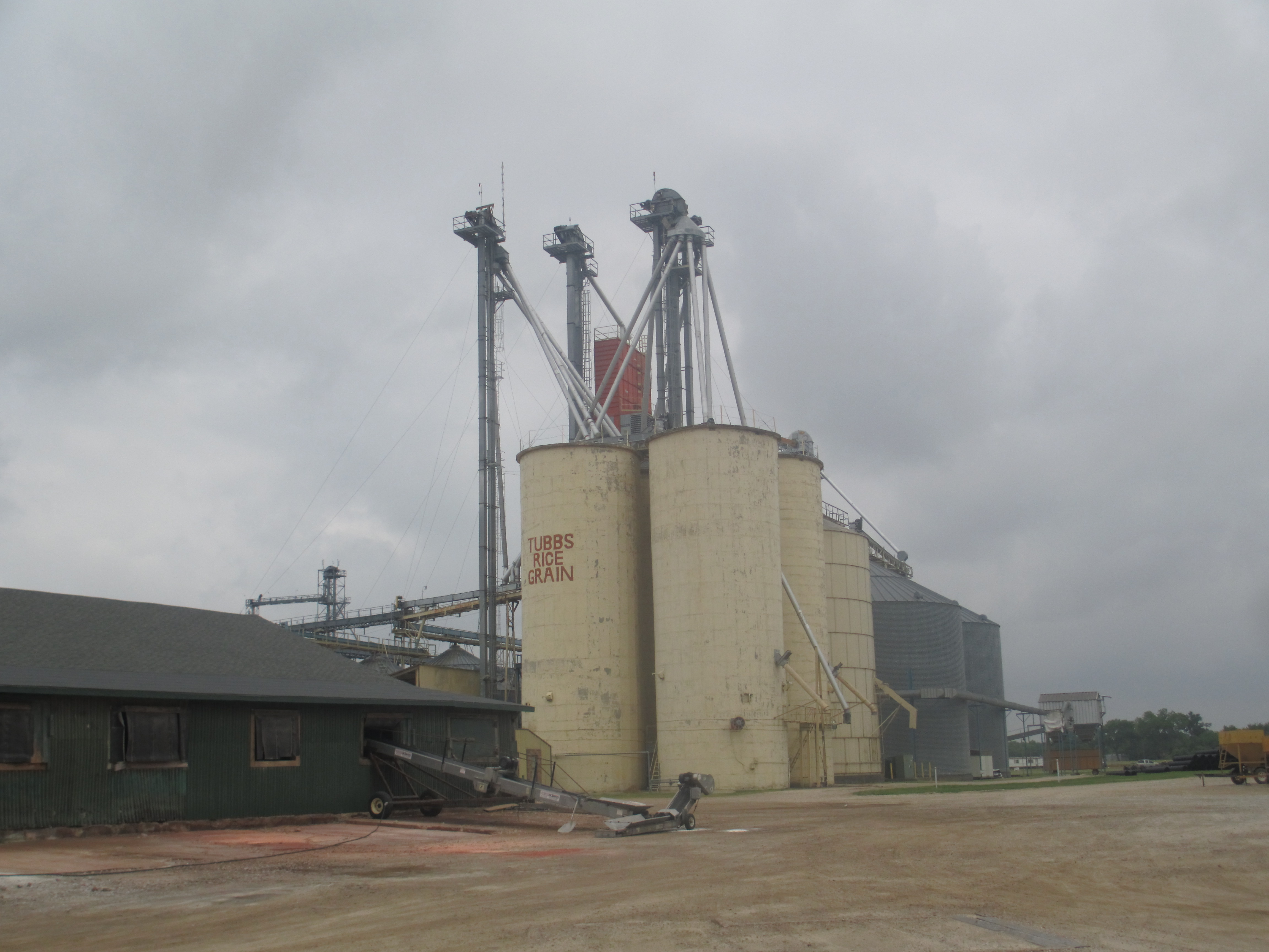 I took photo of Tubbs Rice Grain in Pioneer, LA, with Canon camera.